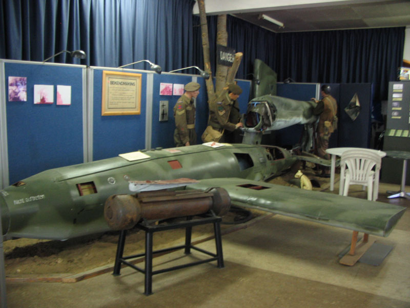 This wooden body and wings contain all of the original V1 parts ( recovered from Holland). It is partially open to fully see and explain all components.